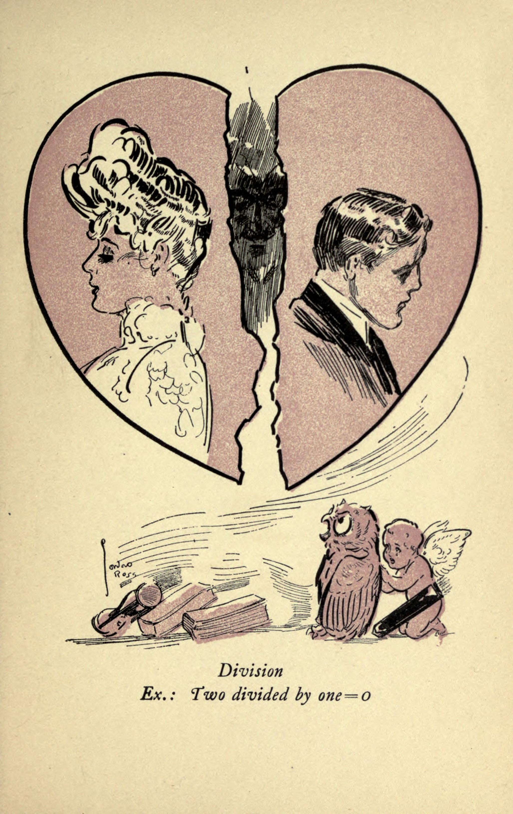 Illustration by Gordon Ross